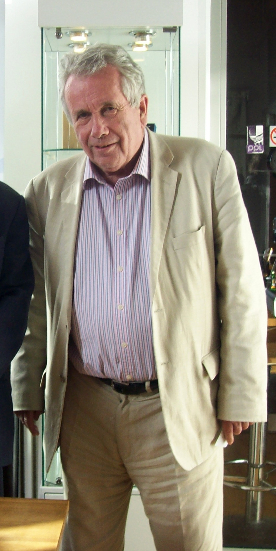 Chris Mullin was signing my copy of his diary "A View From The Foothills" when Martin Bell popped out from the cafe to have a word with him, both were kind enough to indulge my picture request. I have been meaning to read Chris Mullin's diary for years - it was first published in 2009 and is now in its 14th. reprint. The diary reminded me of Harold Nicholson's "Diaries And Letters" covering 1939-1962 both enjoyed ringside seats close to the inner workings of government without exposure to potentially distorting legacy-concerns of the highest-offices. Comparing Mullin with Nicholson's diaries highlights just how much modern political diary-keeping has become a more personally confessional business.. (I wonder who will be scribbling away at a similar record of our coalition experiment)? I admire these two men, for their honourable contributions to the body politic. Martin Bell was the anti-sleeze MP for Tatton and Chris Mullin's parliamentary expenses claims were notorious for their modesty being among the most lowest on record: famously featuring the indulgence of a £45 black & white TV license for his London office. Parliament is a poorer place without them but they do demonstrate an old political truism (I just invented it), that if you want a good MP, don't vote for a snappy dresser! I have two of Martin Bell's books: An Accidental MP, which he kindly signed for me at the Keswick Literature Festival in 2007 and his journalistic title: Through The Gates Of Fire - A Journey Through World Disorder, fortunately things are pretty settled in Hexham.